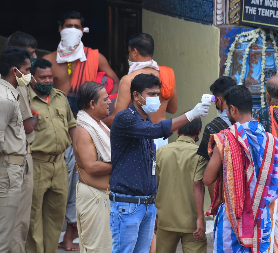 Tweet Text: COVID19 ମୁକାବିଲା ପରିପ୍ରେକ୍ଷୀରେ ରଥଯାତ୍ରା ପାଳନ ଅବସରରେ ସମସ୍ତ ପ୍ରକାରର ସତର୍କତା ଅବଲମ୍ବନ କରାଯାଇଥିଲା। ରଥ ଚତୁଃପାର୍ଶ୍ବକୁ ସାନିଟାଇଟାଇଜ୍ କରାଯିବା ସହିତ ସମସ୍ତଙ୍କ ଥର୍ମାଲ୍ ସ୍କ୍ରିନିଙ୍ଗ୍ କରାଯାଇ ପବିତ୍ର #ରଥଯାତ୍ରା କାର୍ଯ୍ୟରେ ସାମିଲ କରାଯାଇଥିଲା। #RathaJatra